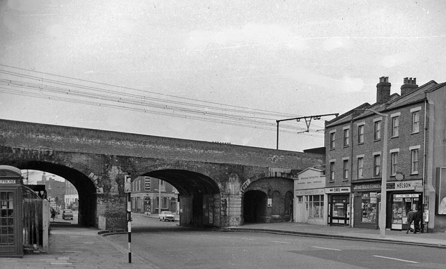 Site of Burdett Road Station. View NW along Burdett Road: the station had been on the left but was closed 21/4/41 - no doubt owing to Blitz damage. This is the ex-Great Eastern line from Fenchurch St. to Stratford, which was not used Gas Factory Jct. - Bow Jct. after 1949, but remained the main line of the Tilbury Lines (ex-London, Tilbury & Southend), electrified in 1962.